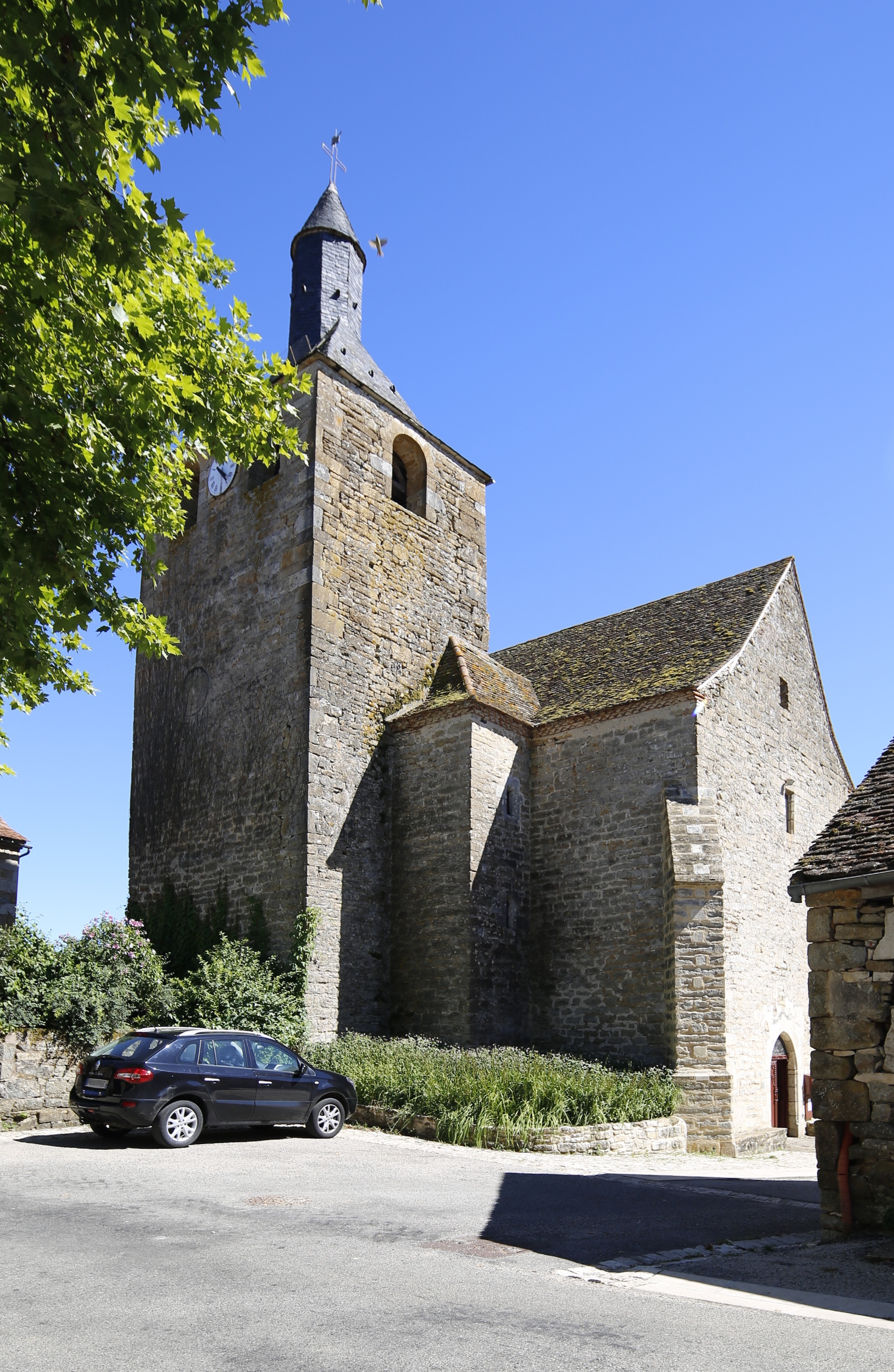 Saint-Germain church of Rignac. .